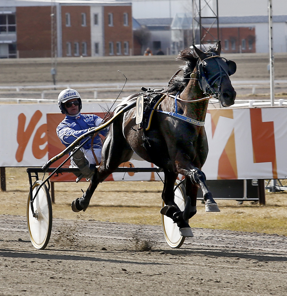 On Track Piraten & driver Erik Adielsson 2015.